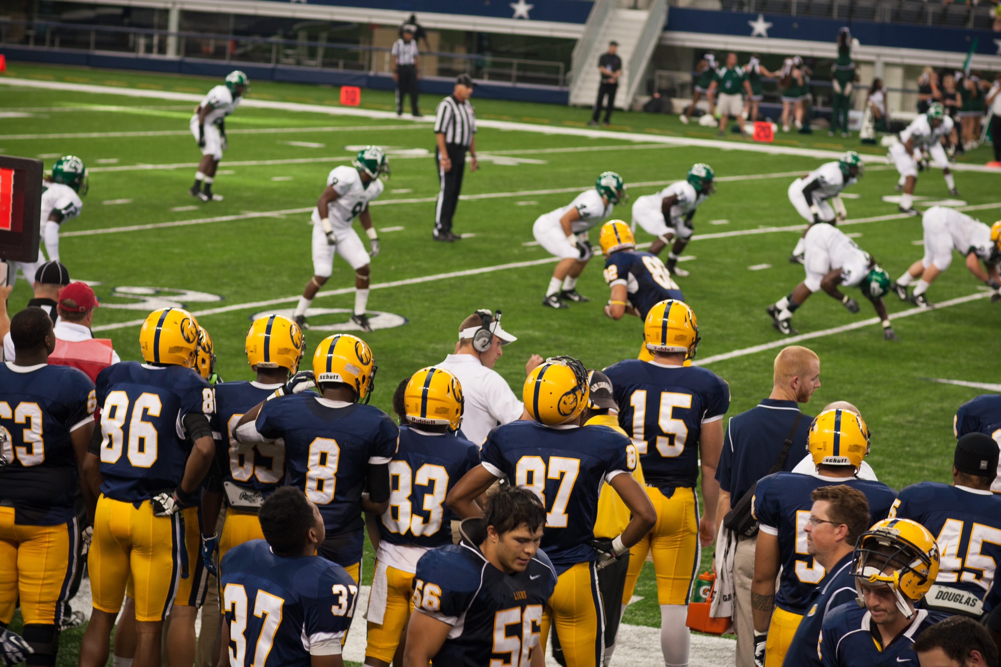 13290-LSC Football Festival-8563.jpg Scenes from the Delta State Statesmen vs. Texas A&M–Commerce Lions football game at AT&T Stadium in Arlington on September 13, 2013.